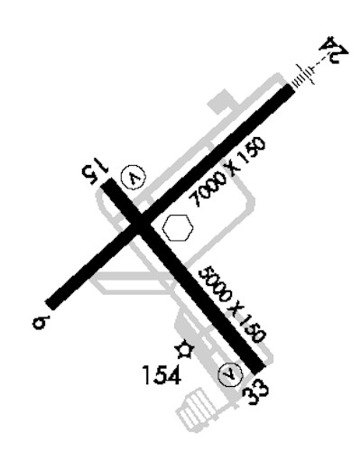 FAA runway diagram for Northeast Philadelphia Airport (PNE) in Philadelphia, Pennsylvania, United States. Warning: this diagram contains material which is subject to change, do not use for navigation.